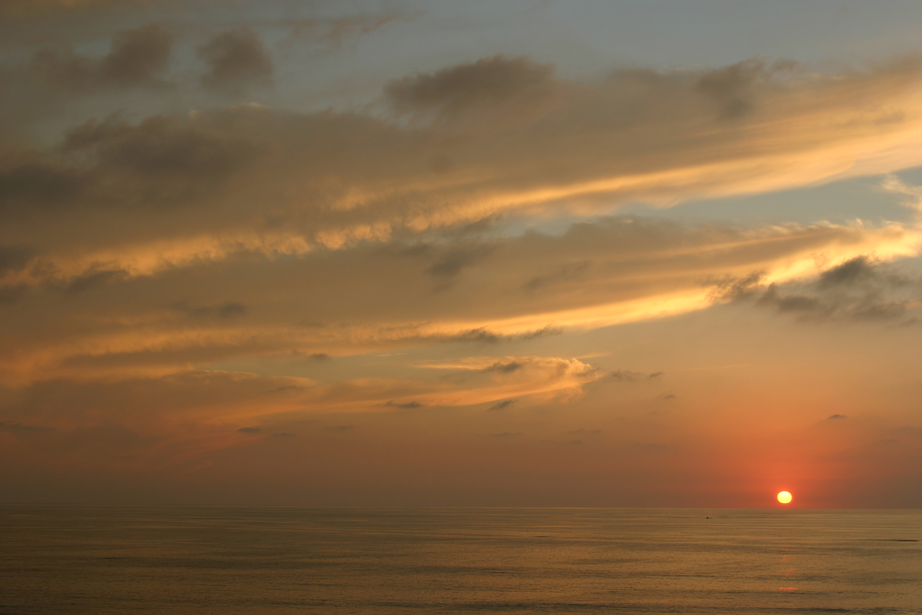 A sunset over the Pacific Ocean in Acapulco, Mexico.